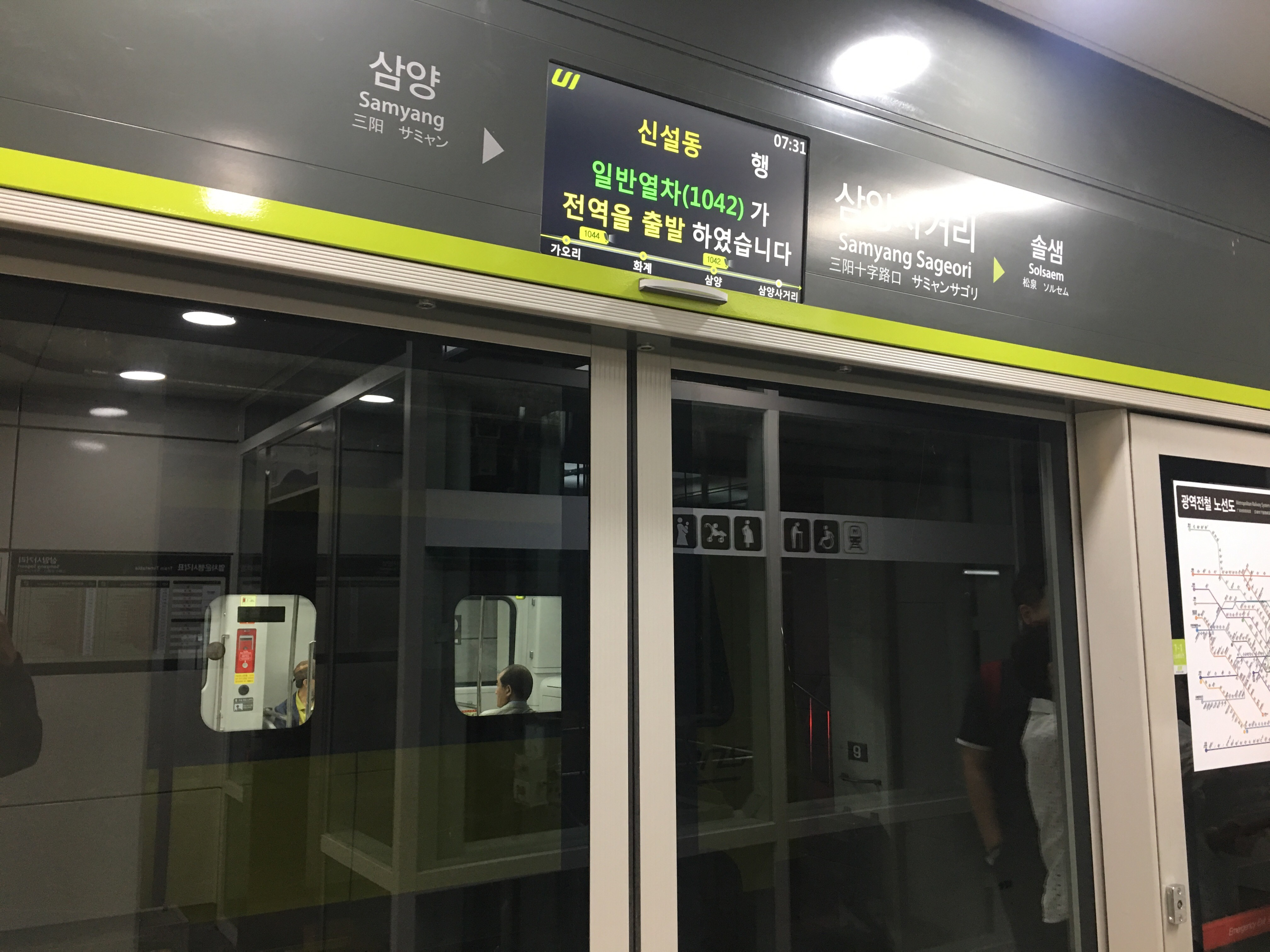 A scenery of Ui LRT (Seoul) Samyang Sageori Station Screendoor